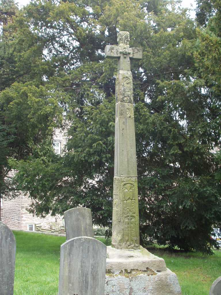 David Berry